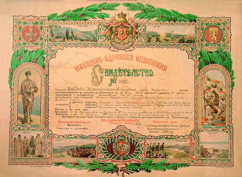 Certificate for service in the Macedonian-Adrianopolitan Volunteer Corps of Konstantin Kondov from the town of Prilep.